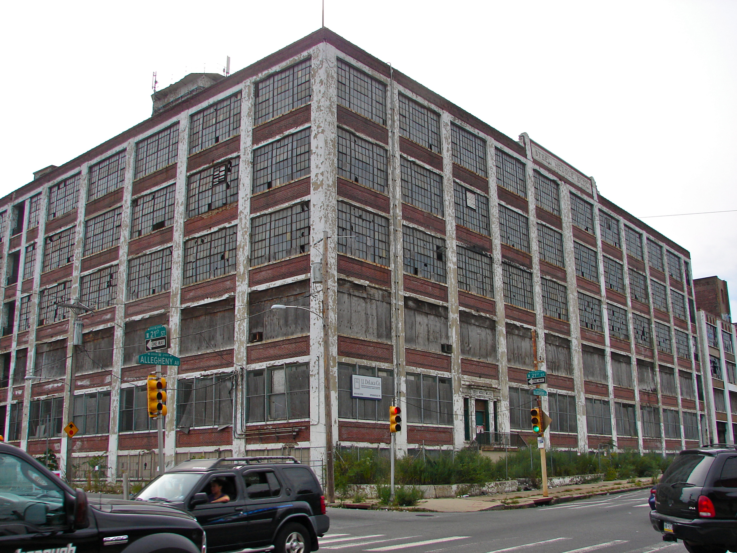 Steel Heddle Manufacturing Company Complex in Philadelphia on the NRHP since June 28, 2010. At 2100 West Allegheny Ave. in the Allegheny West neighborhood of North Philly.